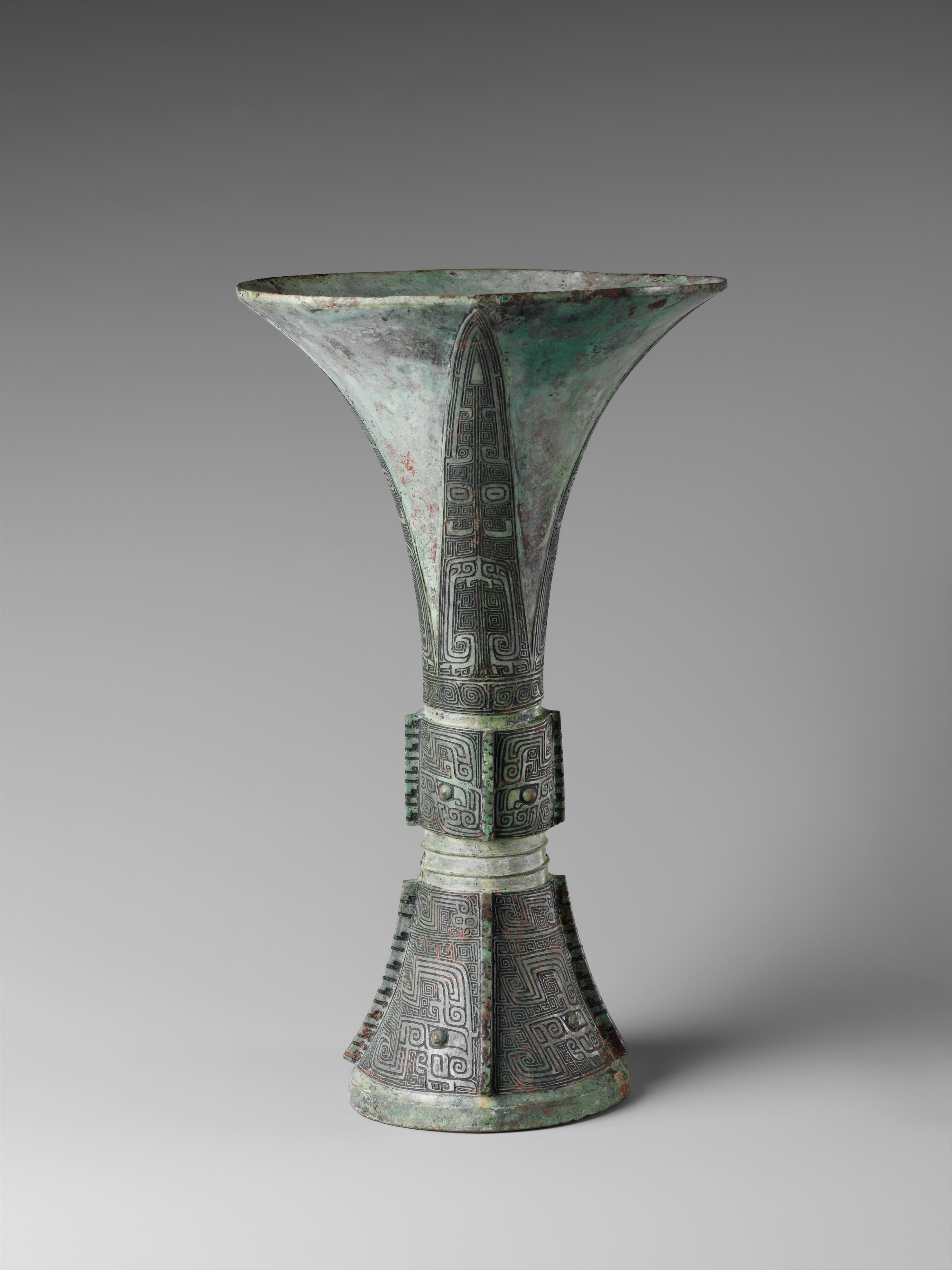 China; Wine beaker; Metalwork